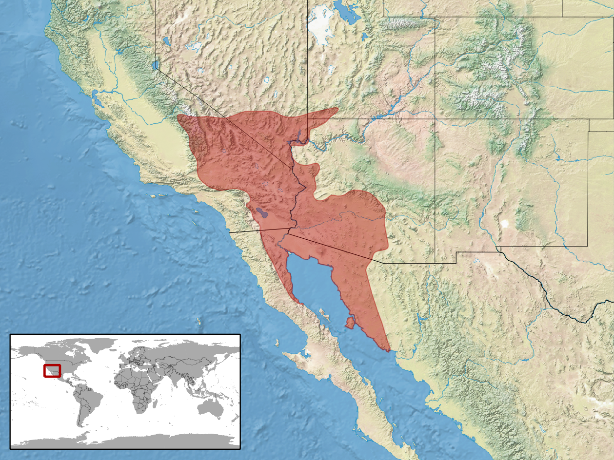 geographic distribution of Crotalus cerastes (Native: Mexico; United States)